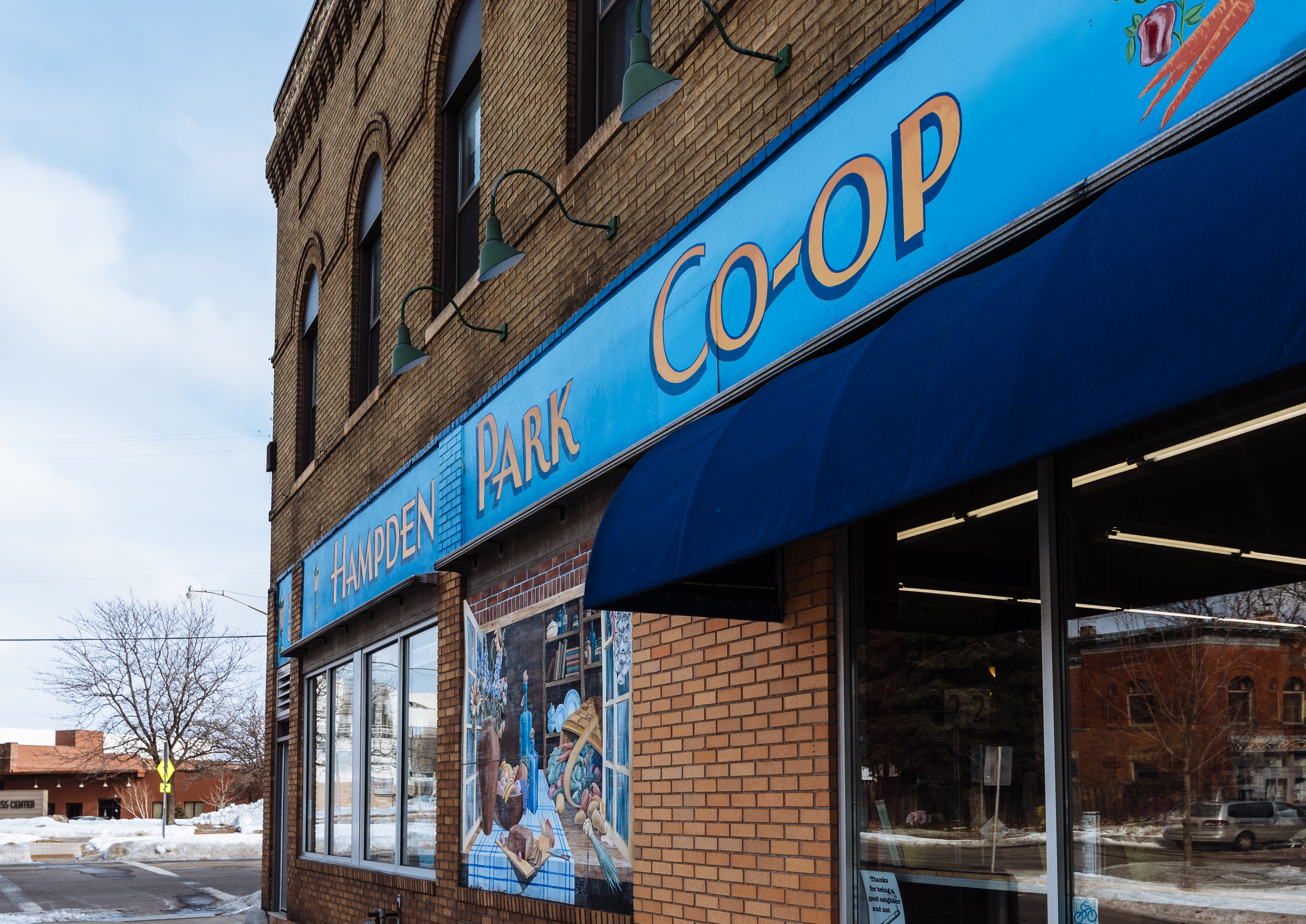 The Hampden Park Co-Op natural foods grocery store in the Saint Anthony Park neighborhood of St. Paul, Minnesota.